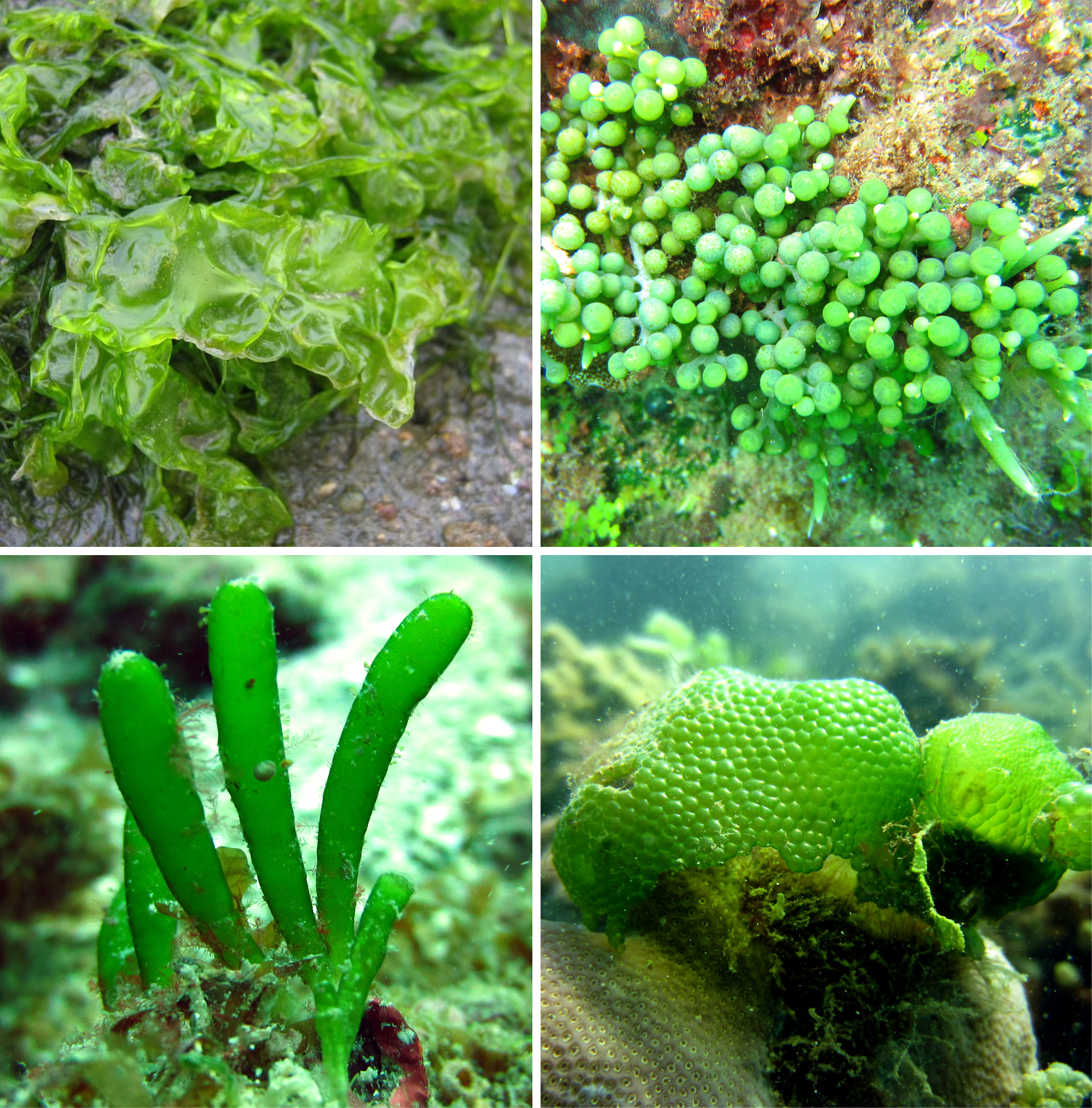 Composite image to illustrate the diversity of Ulvophyceae. Top left: Ulva (photo by Kristian Peters). Top right: Caulerpa. Bottom left: Bornetella. Bottom right: Dictyosphaeria (photos by Frederik Leliaert).